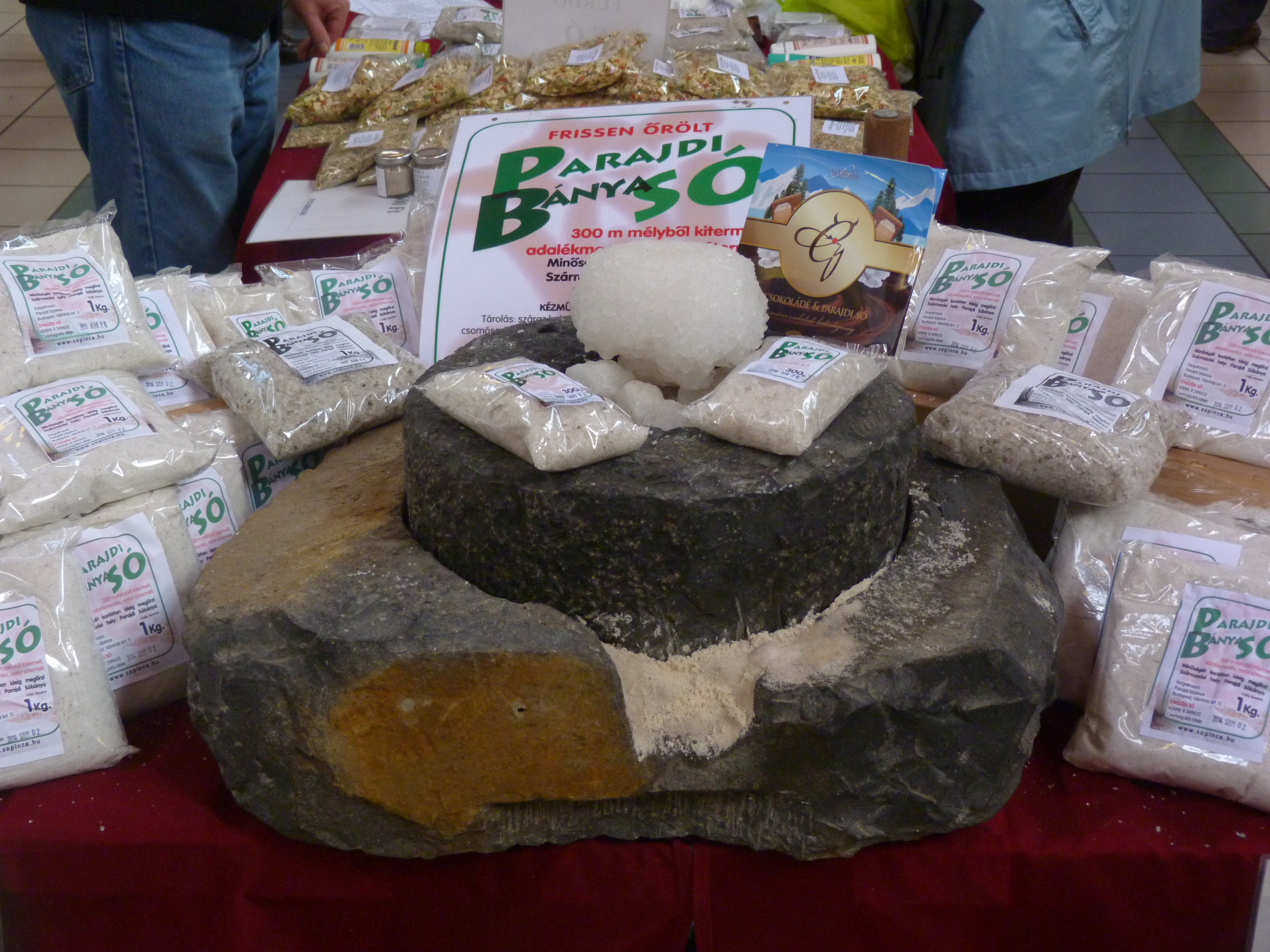 Live on the 12th of September, 2014. Budapest, Great Market Hall. Székely Land in the Great Market Hall. Goods of Székely Land. Legends of Székely Land. Map of Székely Land. ©© Derzsi Elekes Andor, Budapest 2014, You are authorised to use these photos and vids under Creative Commons – even for commercial, for profit purposes. Photos must be attributed to Derzsi Elekes Andor. All of the photos and vids in the Metapolisz DVD line are under Creative Commons and can be used even for commercial – for profit – purposes. Recommended Citation Derzsi Elekes Andor: Metapolisz DVD line